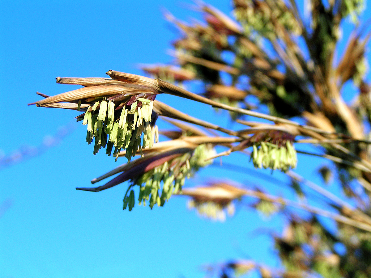 Bamboo flowering in spring in a garden in Roskilde, Denmark (spring 2007)